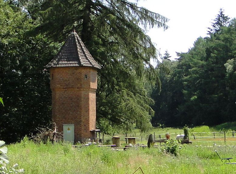 Distribution substations in Neu Sammit, district Güstrow, Mecklenburg-Vorpommern, Germany